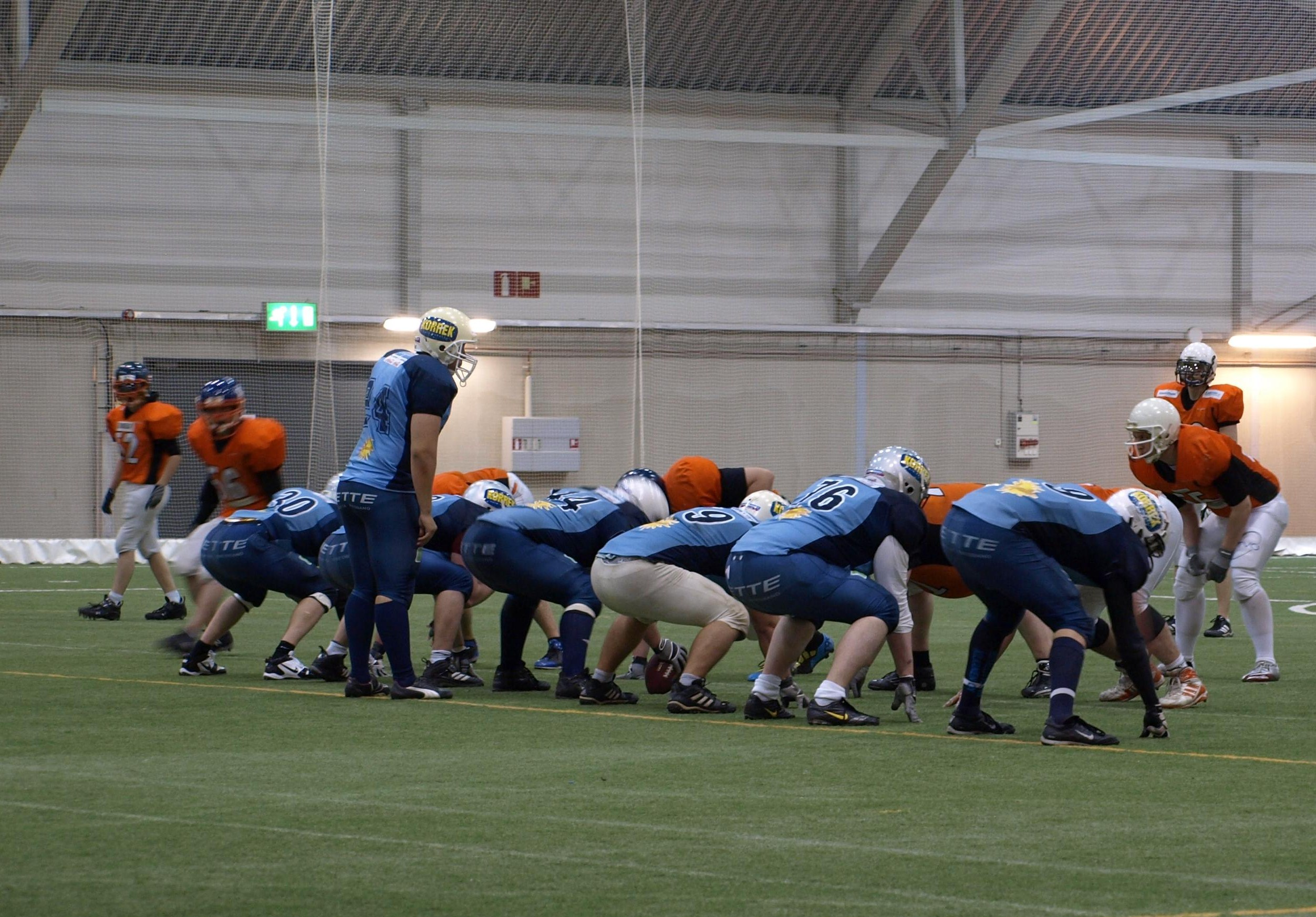 Finnish 2nd Division of American Football: Vaasa Vikings @ Sea City Storm (Rauma). The match was played in Äijänsuo Indoor Sports Hall.